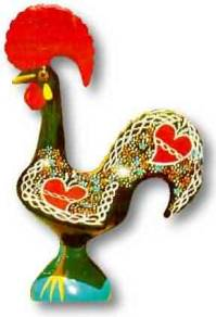 Barcelos Cockerel